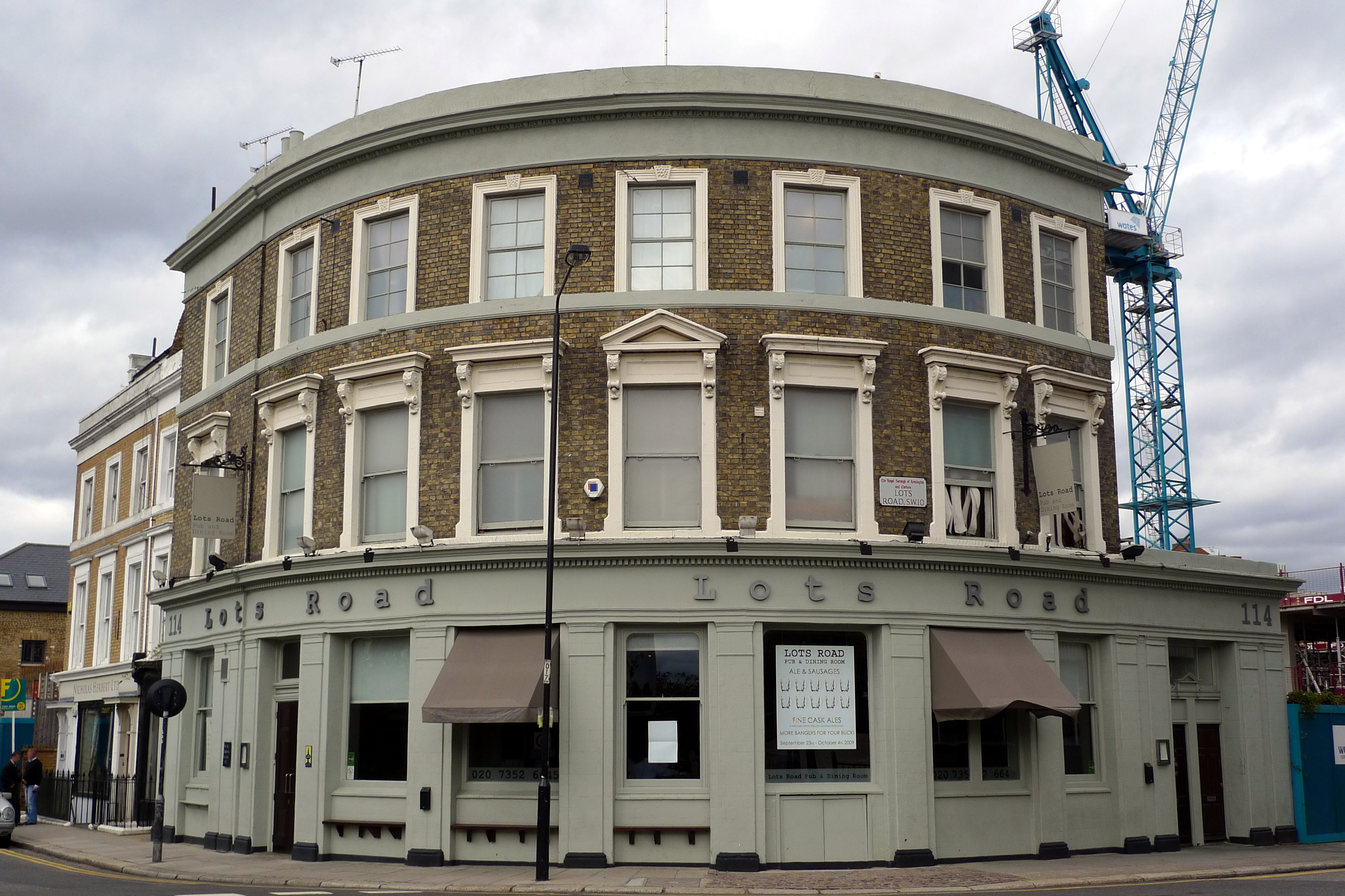 A posh gastropub in a newly-redeveloped area of town. Address: 114 Lots Road. Former Name(s): The Balloon Tavern. Owner: Food and Fuel (website). Links: Fancyapint Beer in the Evening London Eating Dead Pubs (history)